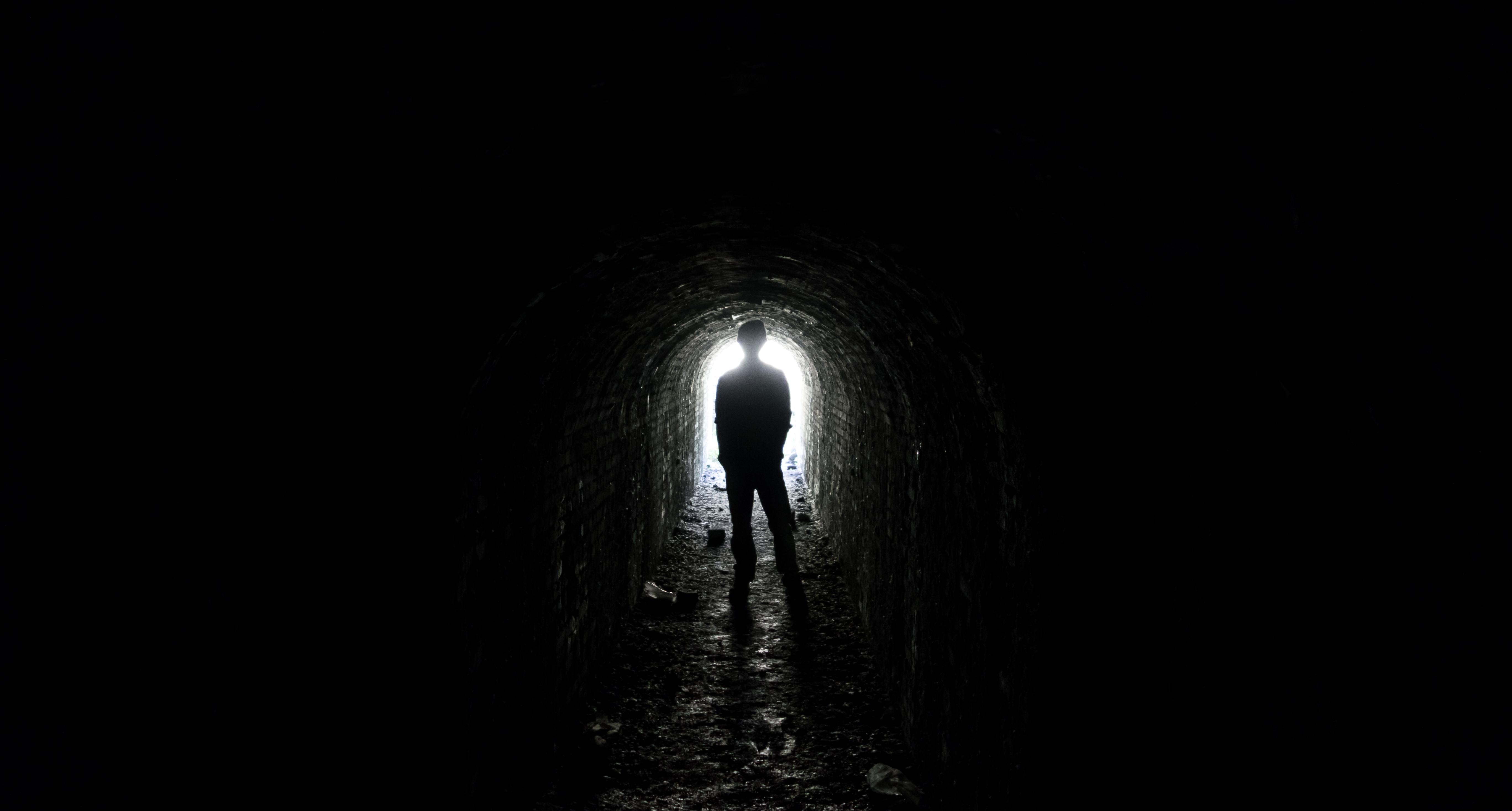 Alien Theory